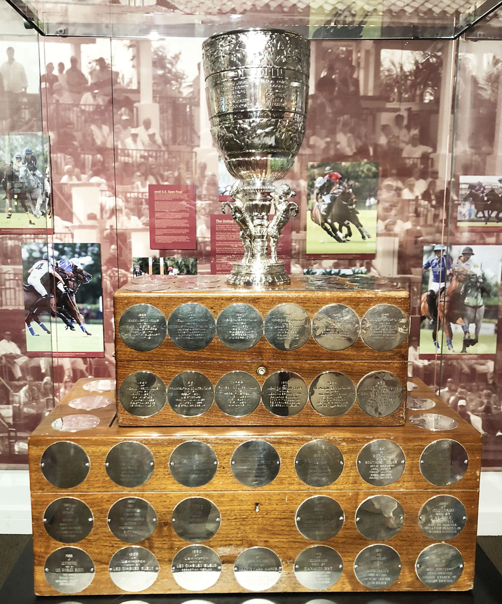 The US Open Polo Trophy designed by Sally James Farnham